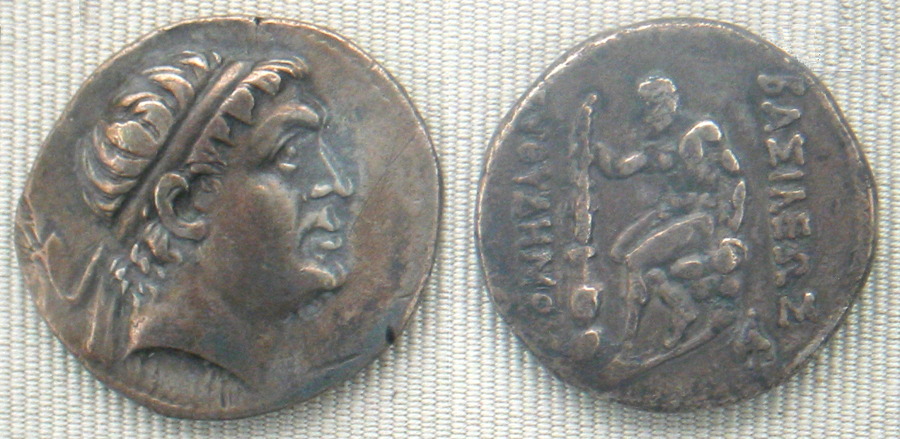 Coin of Euthydemus. Cabinet des Medailles. Personal photograph 2006.